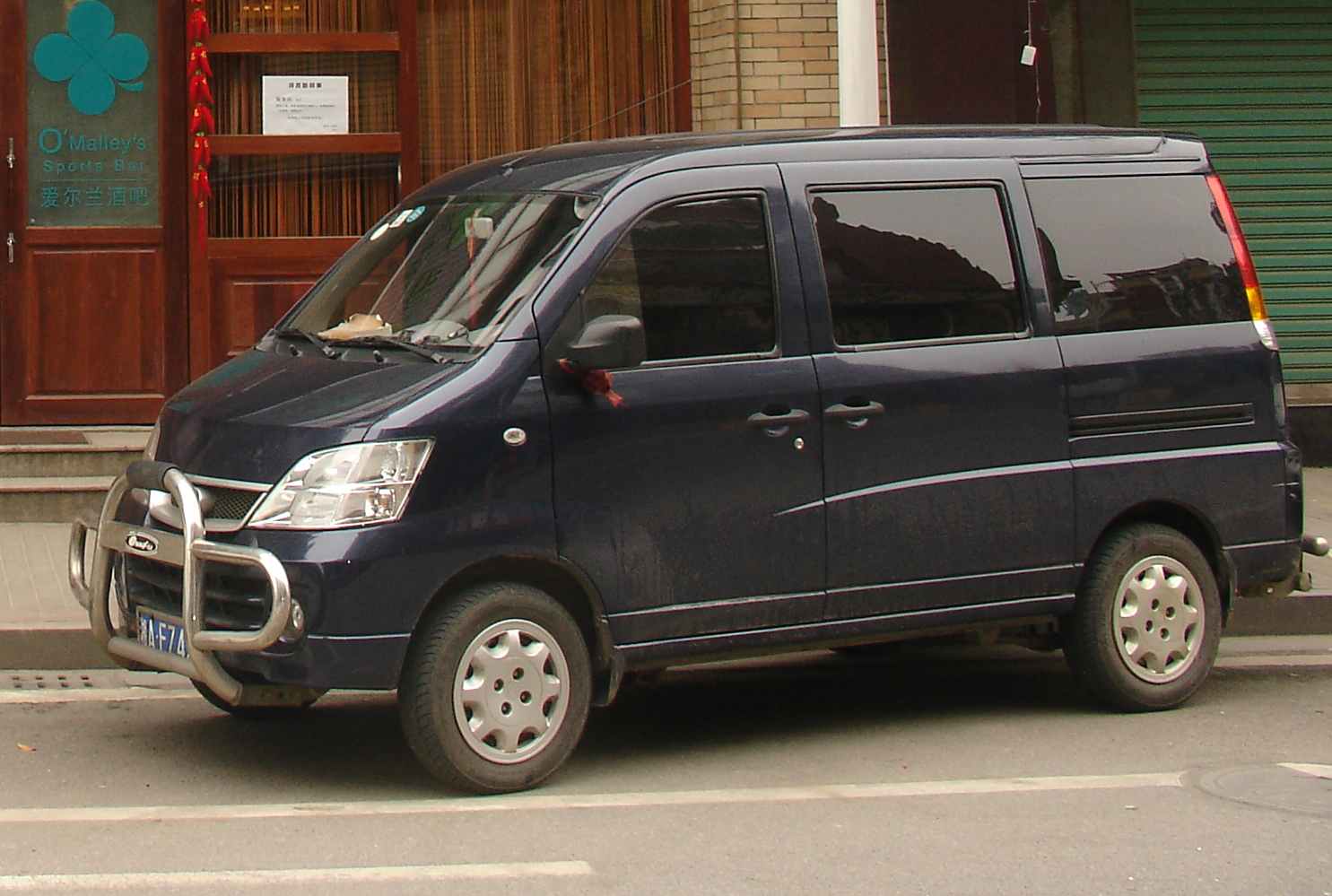 Changhe CH6390 "Freedom" - standard Chinese market 1.1 litre microvan